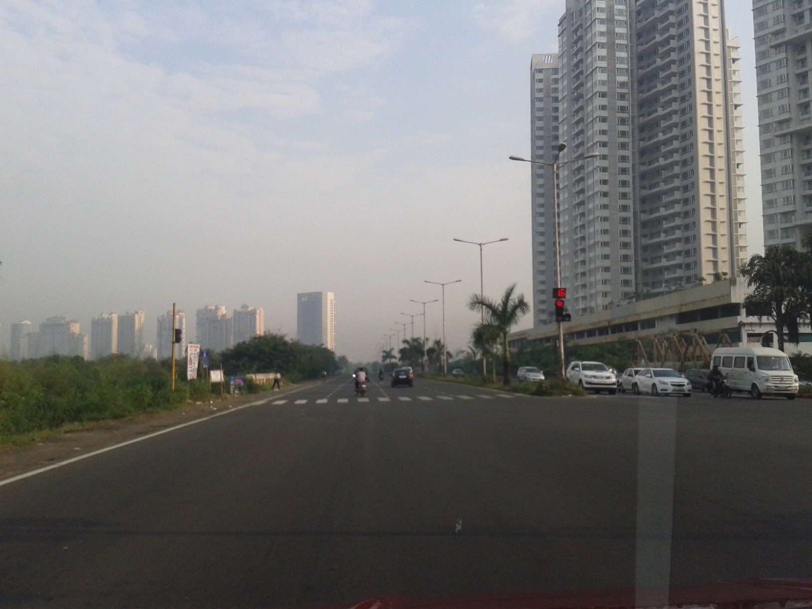 A stretch of Palm Beach Road, Belapur, Navi Mumbai, India.